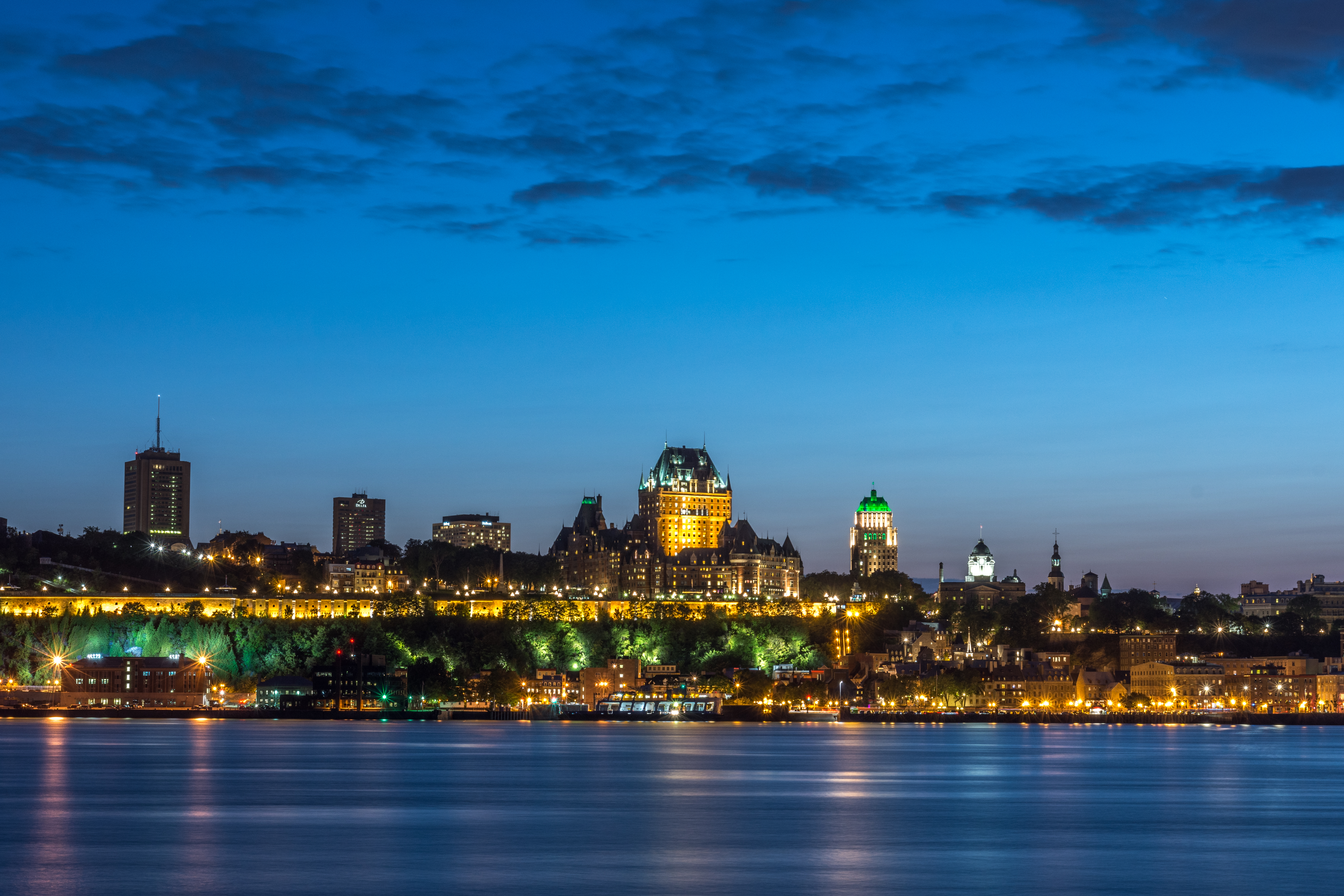 Québec, photographed from Lévis